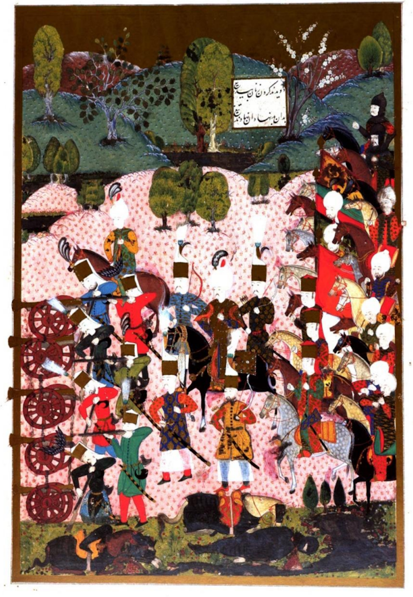 Illustrations of Ottoman soldiers from the Süleymanname